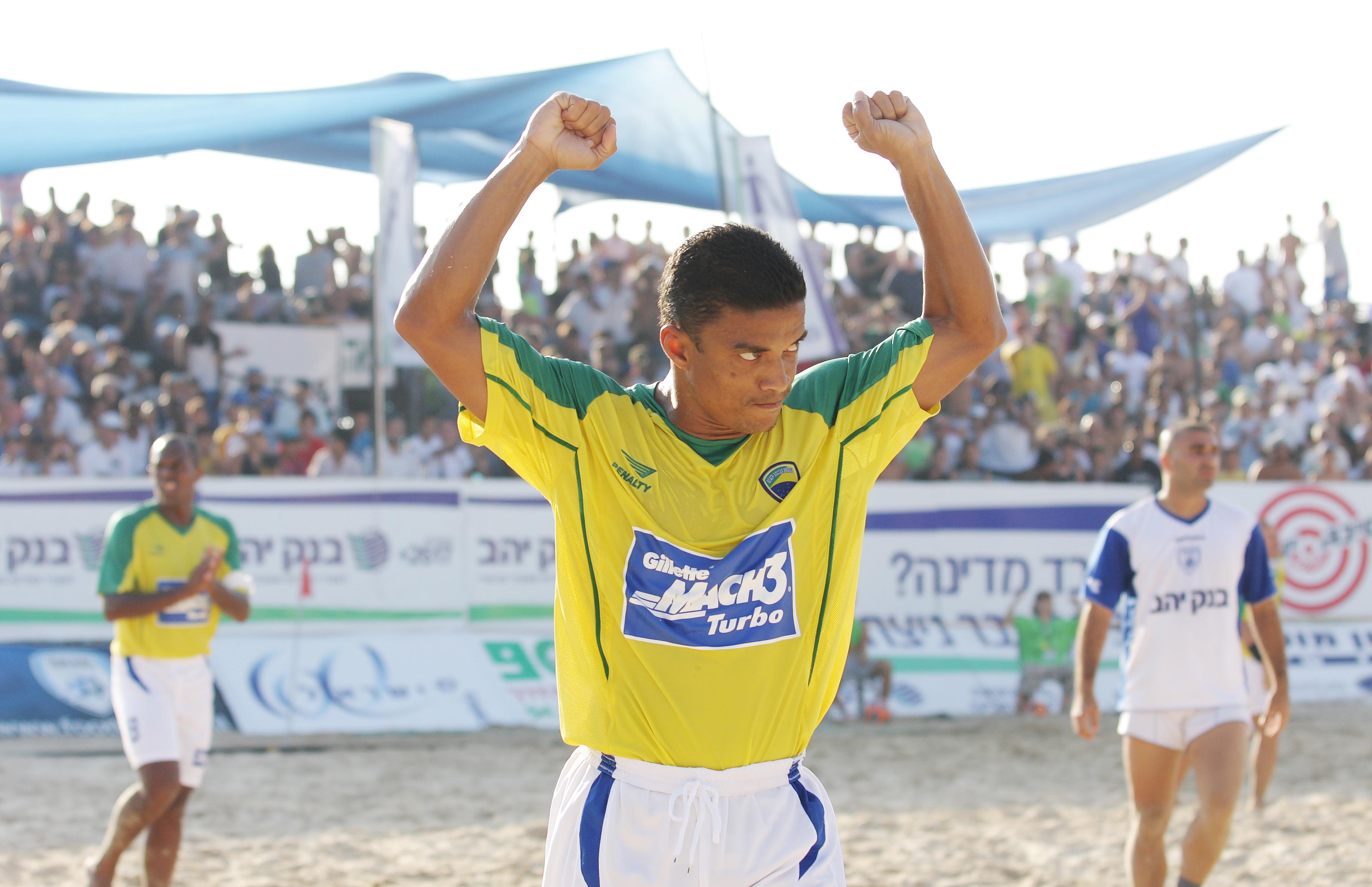 Photo from the friendly match (called the Solidarity Cup) between the Israeli and the Brazilian beach soccer teams, that occured on 11 July 2008, at the Poleg beach in Netanya. The game was played to note 60 years of Israeli independence.